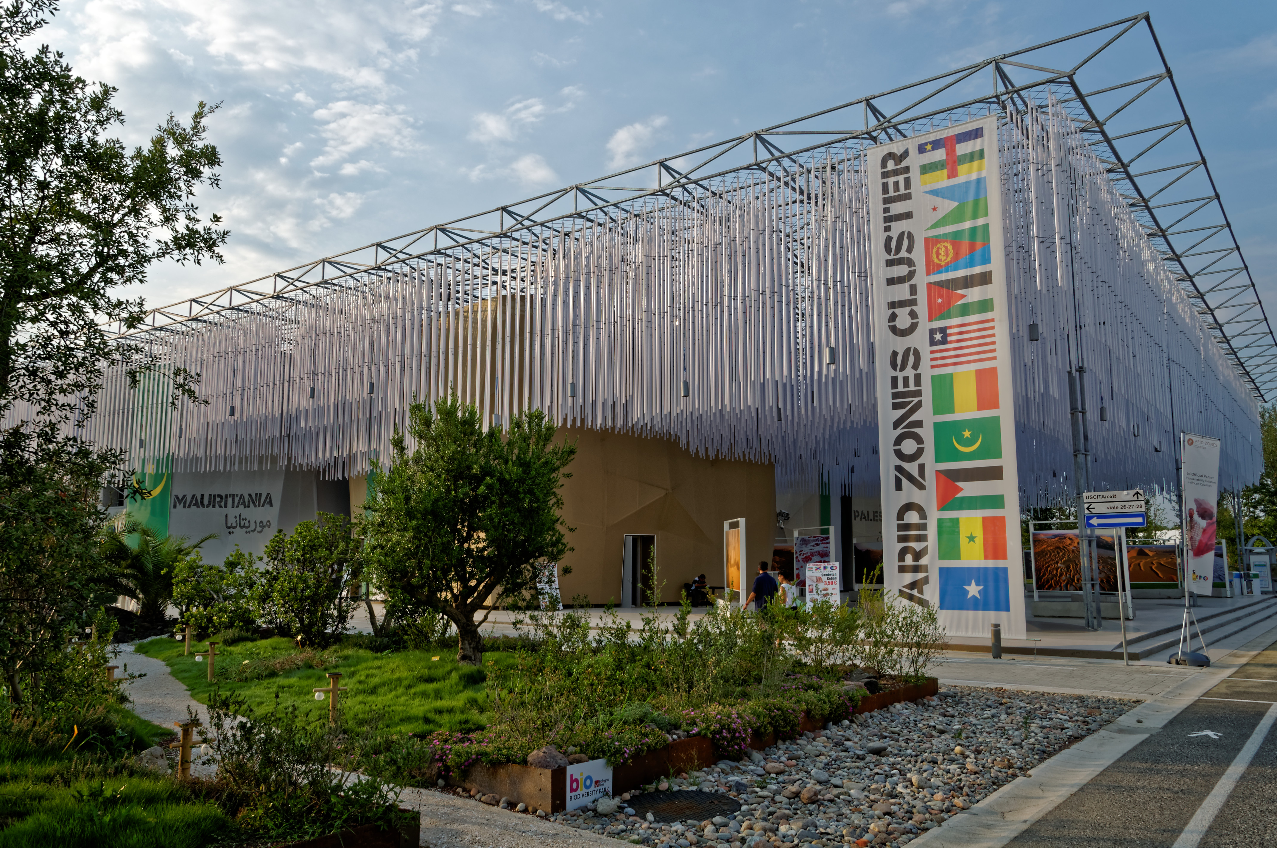 Arid Zones cluster at Expo 2015 Milano